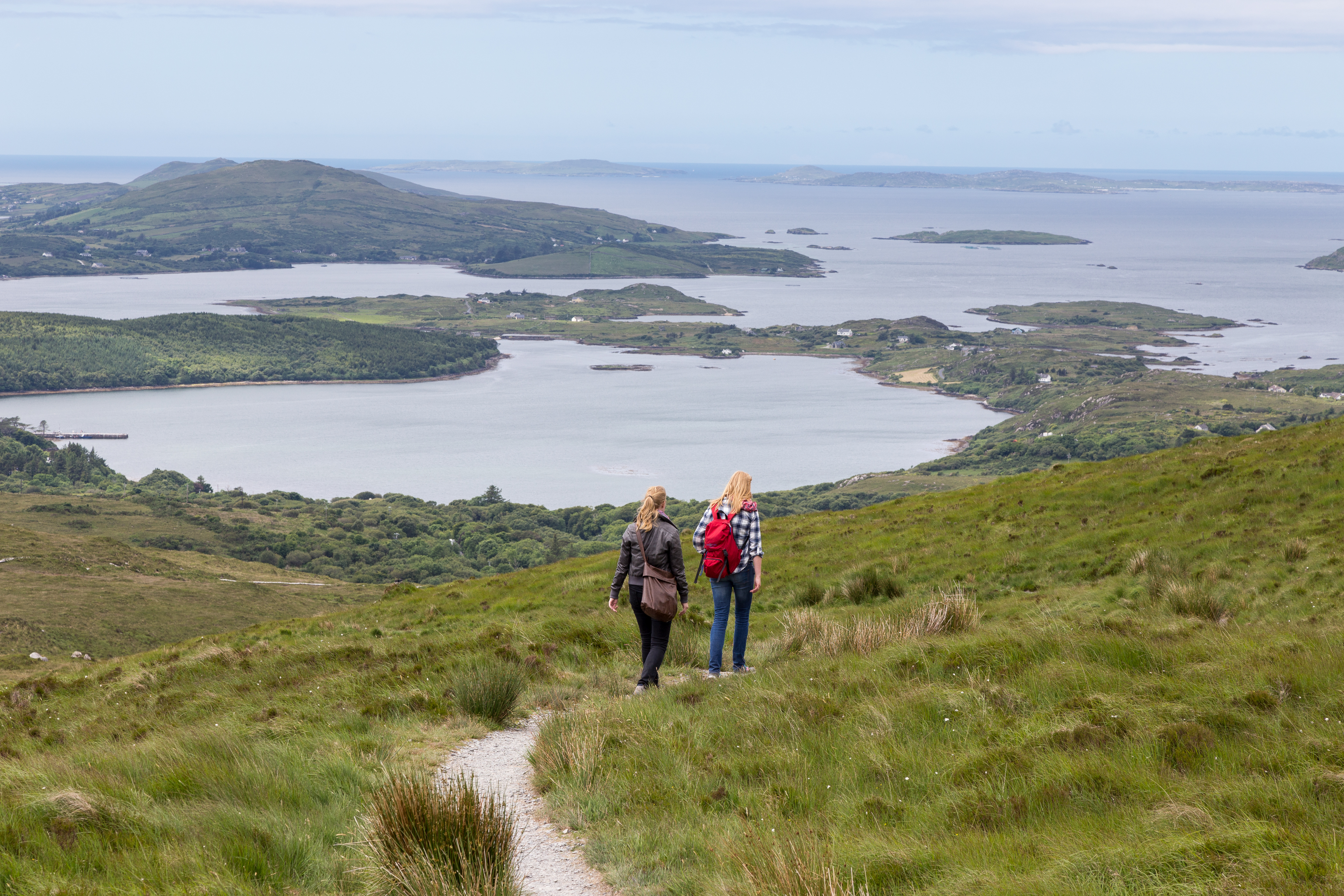 View on Ballynakill Harbour from Diamond Hill, Connemara National Park